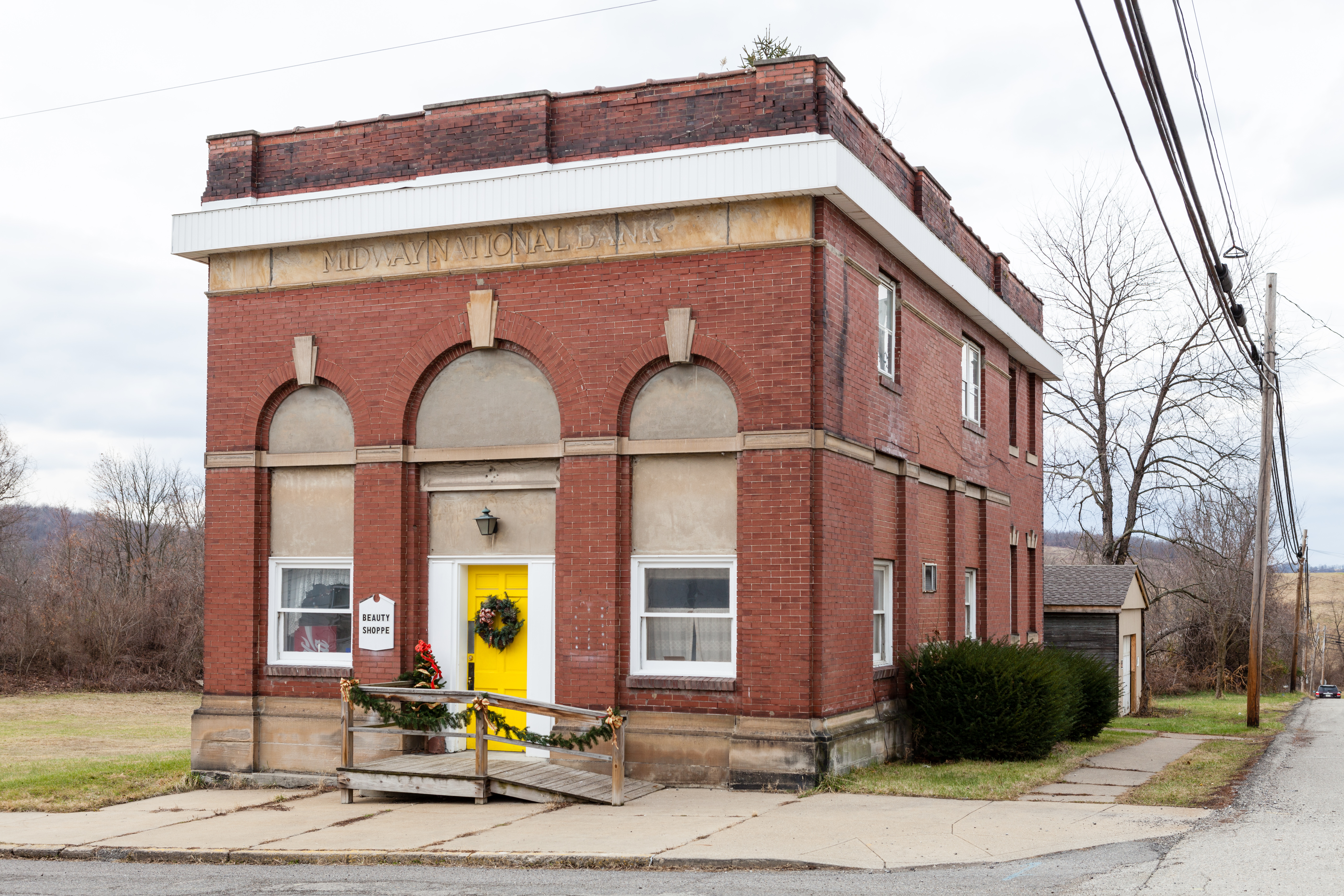 The former Midway National Bank in Midway, Washington County, Pennsylvania on the corner of Washington Ave and Prospect St.